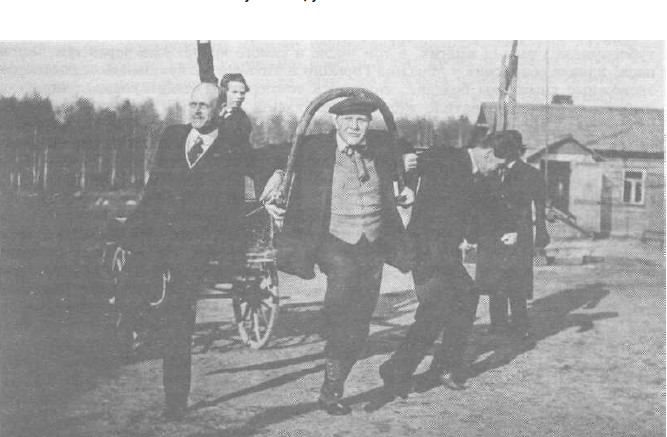 Russian Ivan Manukhin, singer Fyodor Chaliapin and the writer Maxim Gorky in 1914 Mustamaki (Finland).